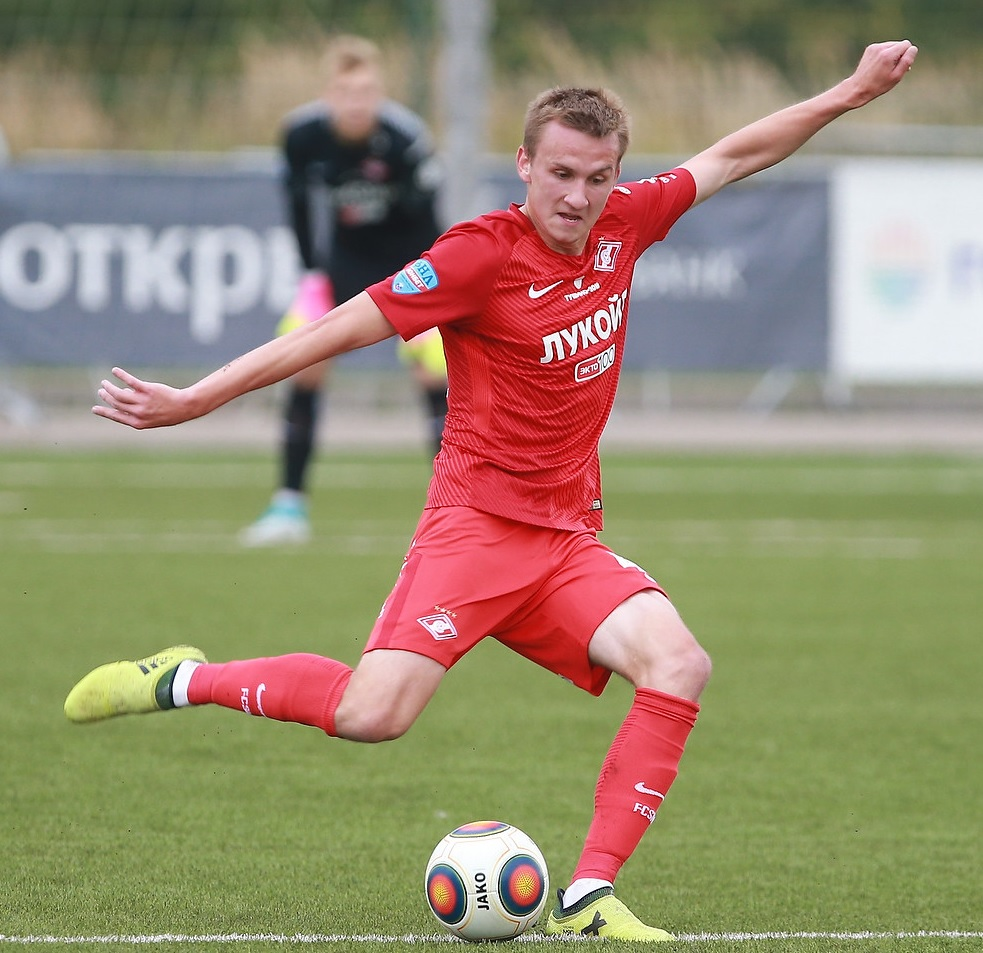 Artyom Mamin with FC Spartak-2 Moscow in a game against FC Krylia Sovetov Samara.